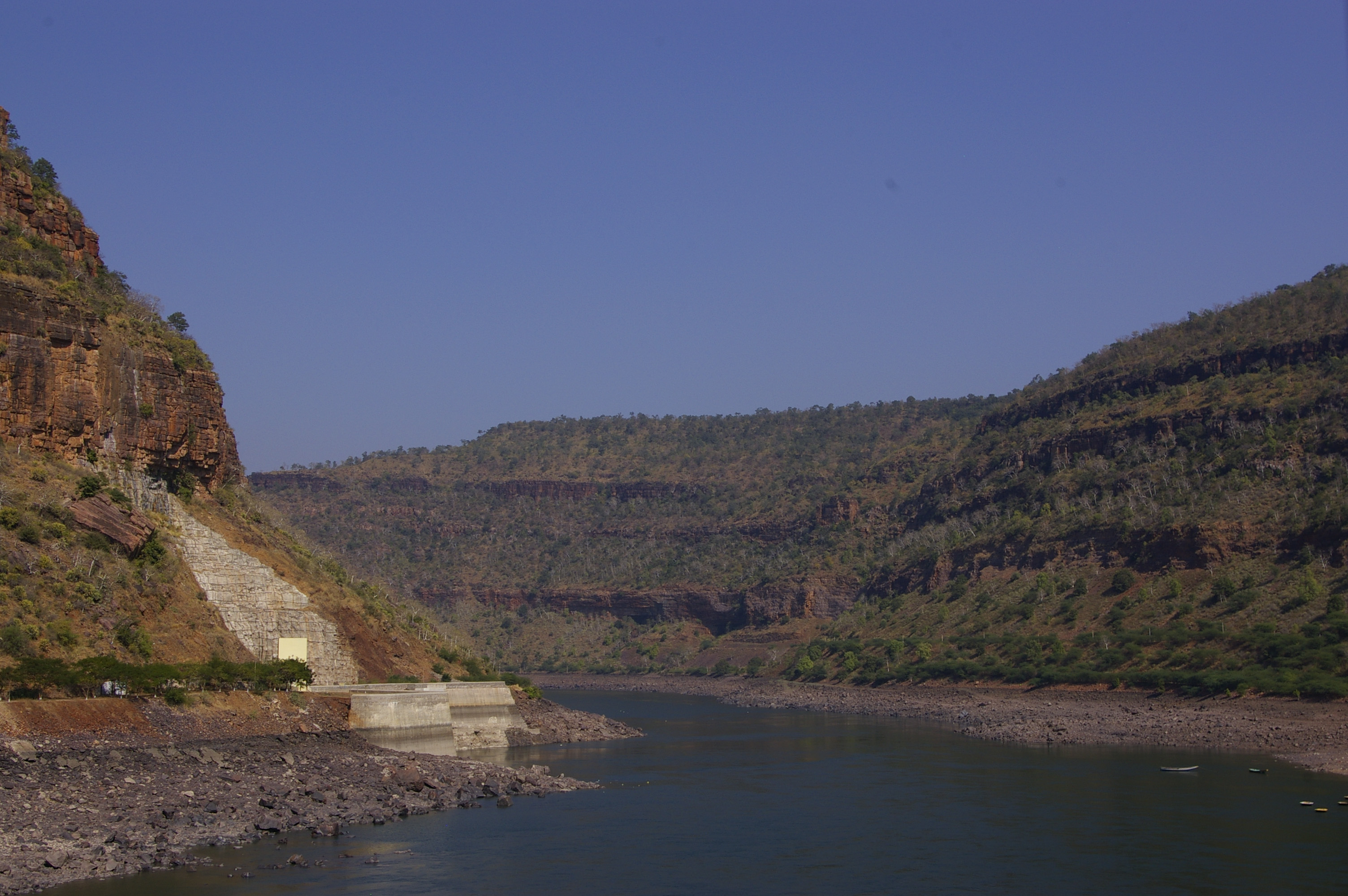 Krishna River Gorge by Srisailam, Andhra Pradesh, India